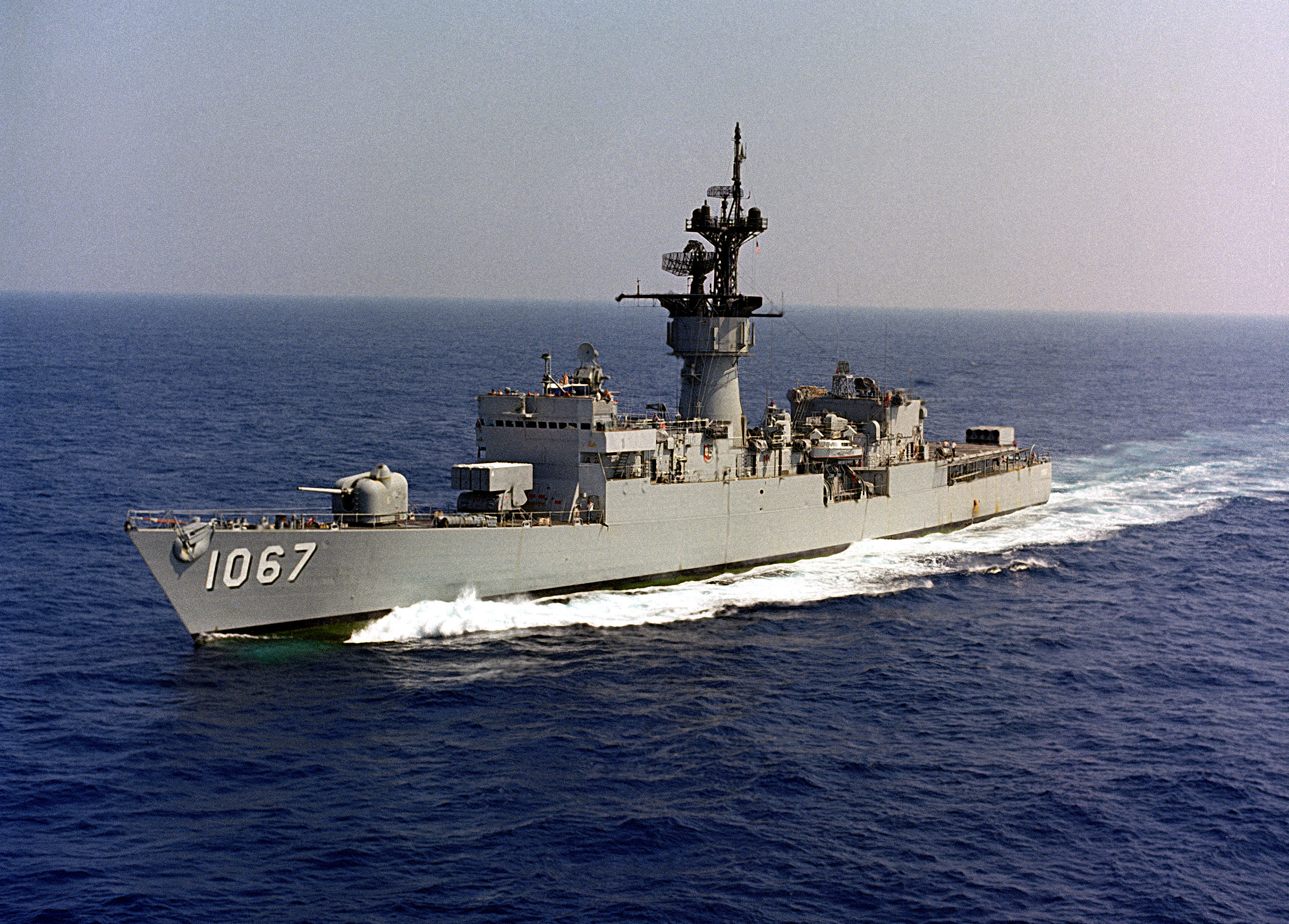 A port bow view of the frigate USS FRANCIS HAMMOND (FF 1067) underway.